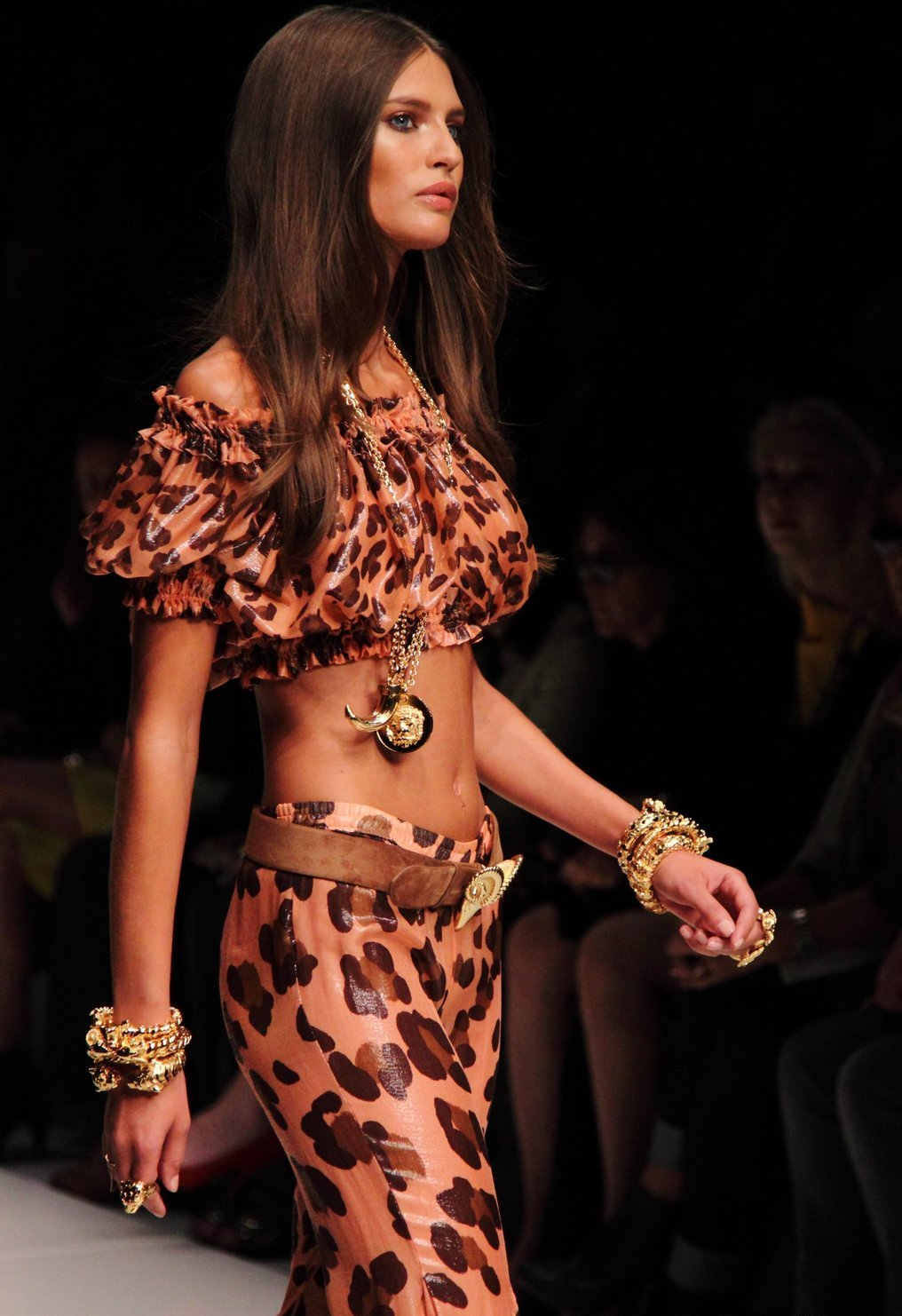 Bianca Balti on the catwalk for Blumarine, 2010.